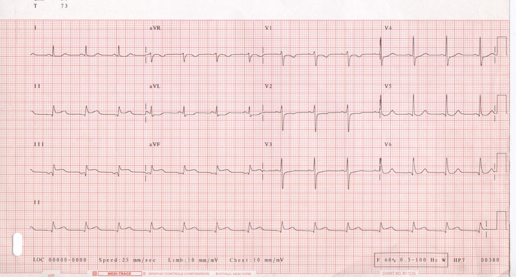 Acute Myocardial Infarction 12 Lead Electrocardiogram (ECG) with ST segment elevation in Leads II, III and aVF for an inferior Acute Myocardial Infarction (AMI).